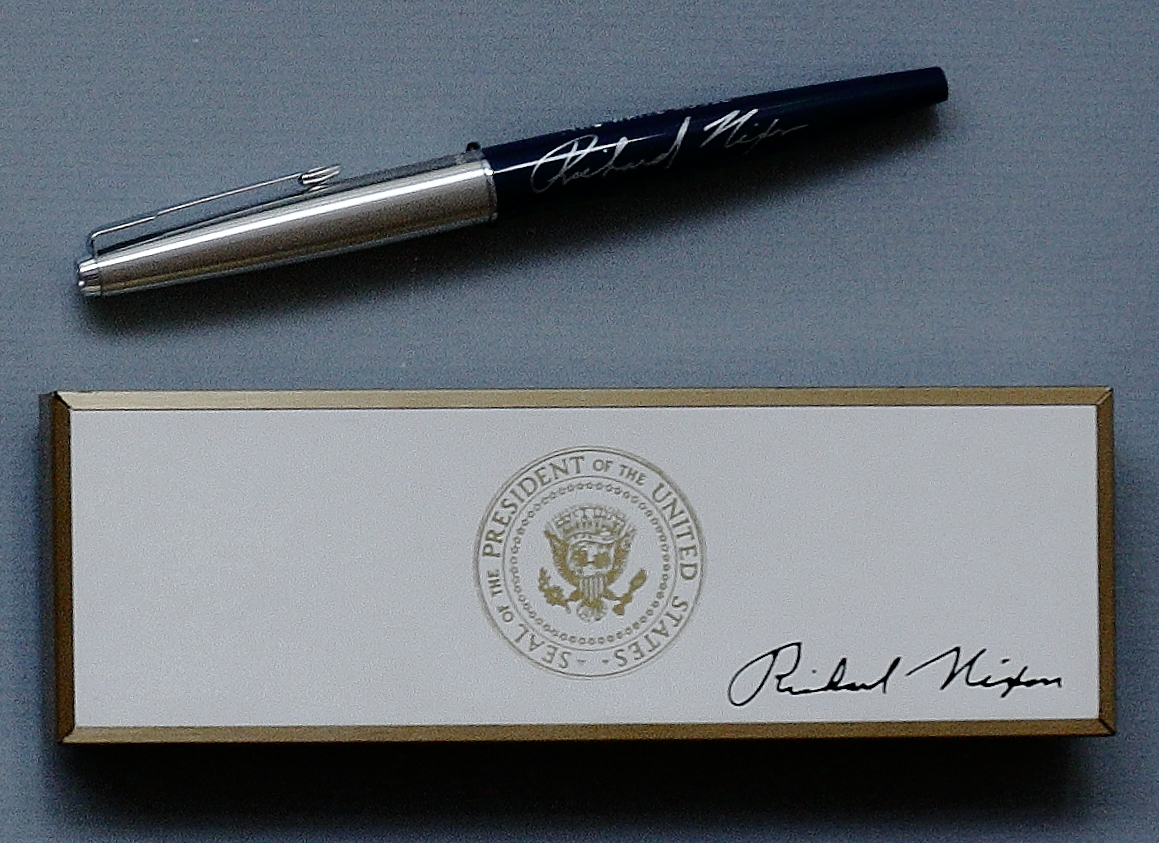 Pen given to Maurice Green by President Nixon after signing the National Cancer Act